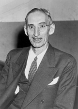 former Senator Guy V. Howard of Minnesota.